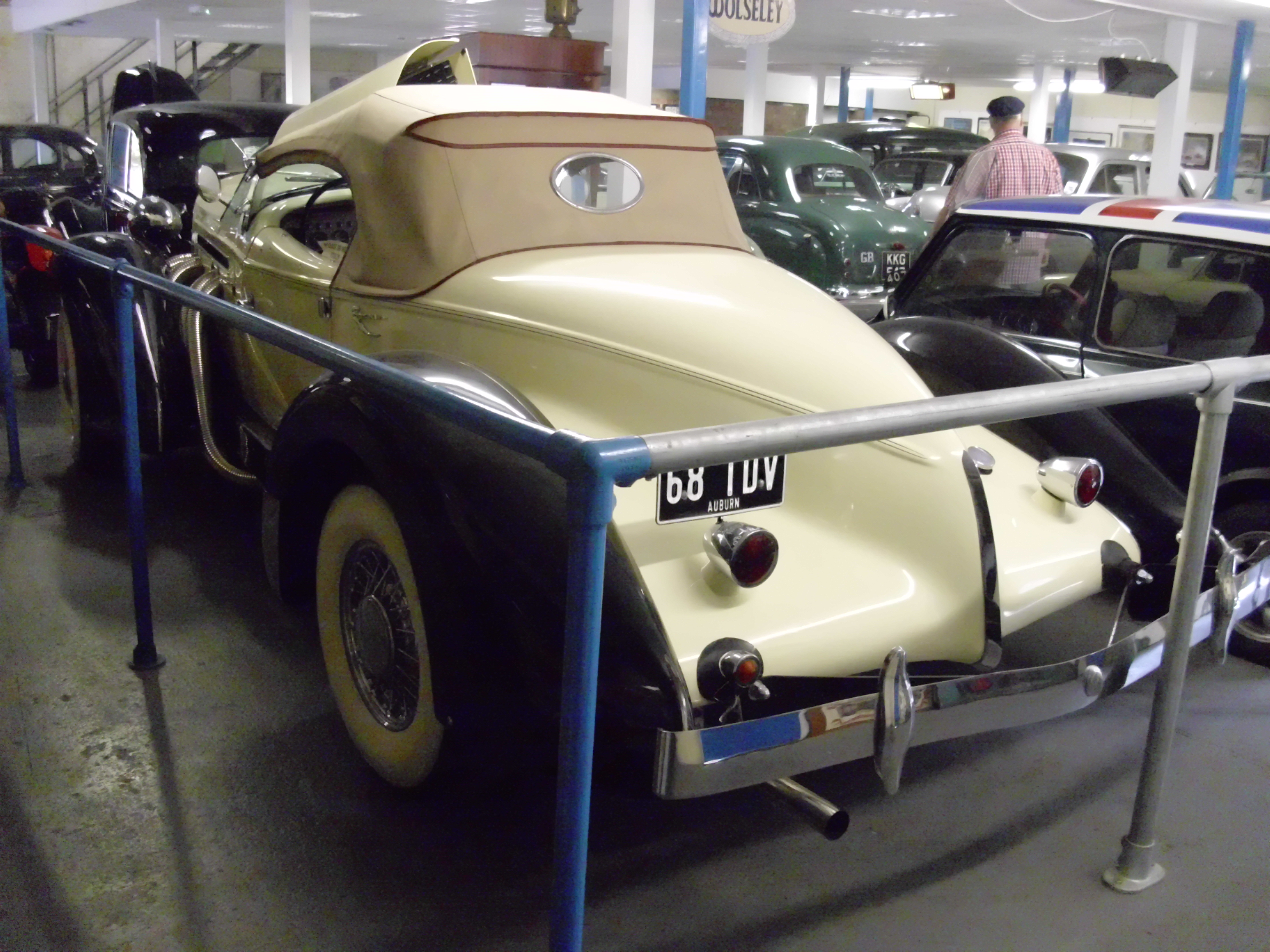 Southeastern Replicars Auburn Replika 1980